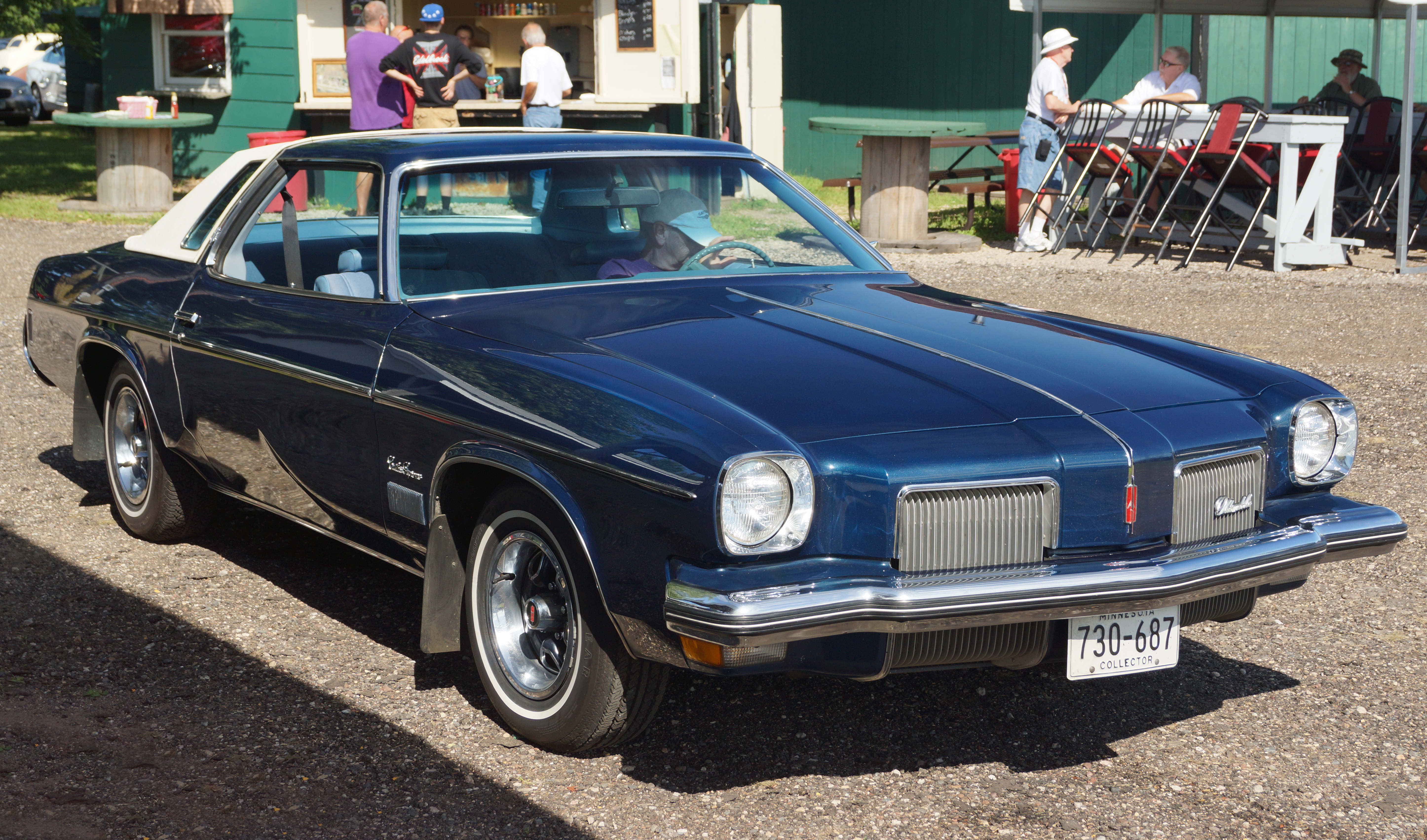 Minnesota Olds Club 40th Oldsmobile State Show & Swap meet Blacksmith Lounge Hugo, Minnesota August 2016 Click here for more car pictures at my Flickr site.